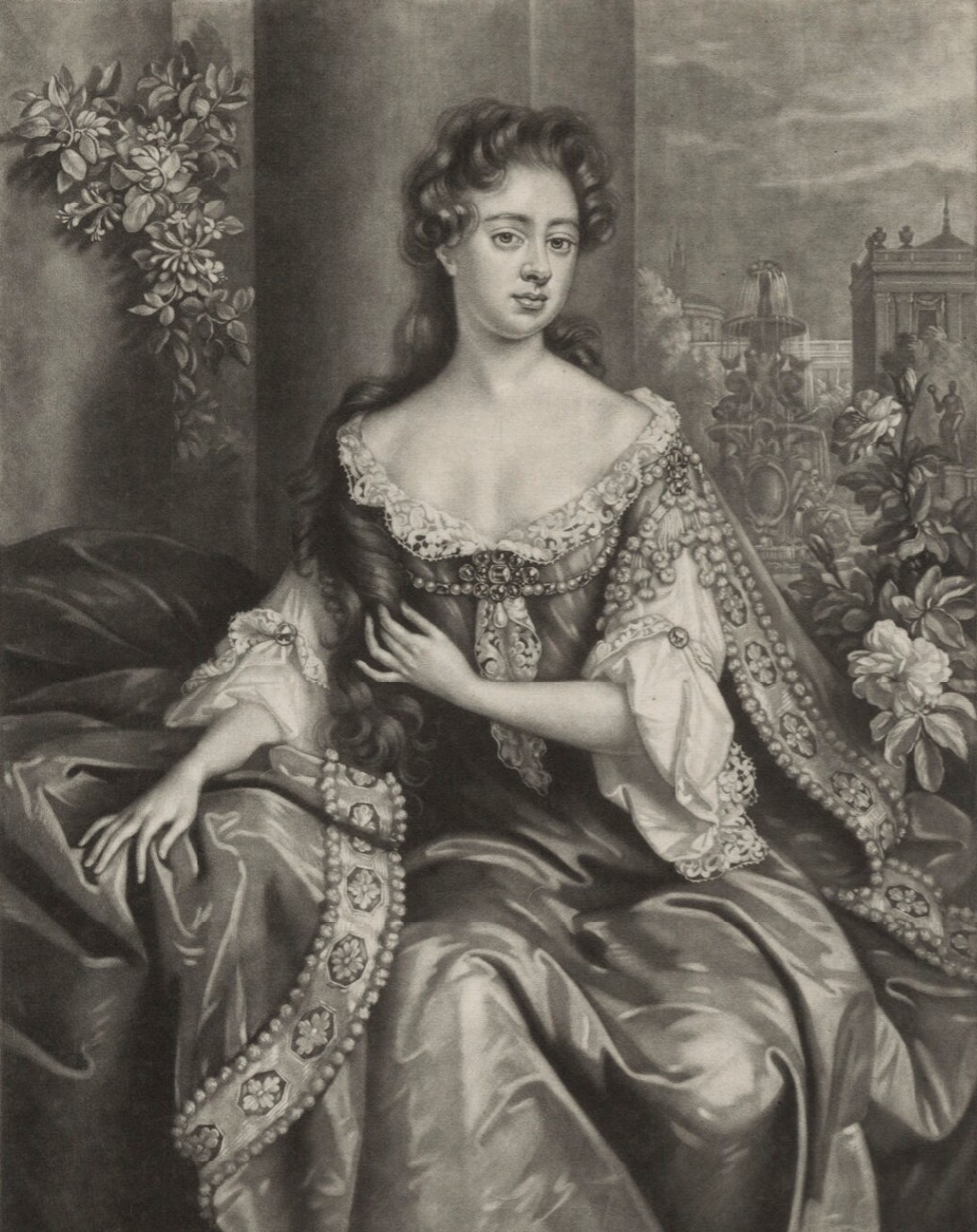 Portrait of the future Anne Brett (1667/8–1753), as Anne Mason, Viscountess Brandon. She was later known as Anne Mason, Countess of Macclesfield.